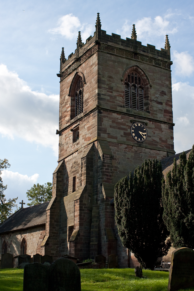 Central tower of All Saints' parish church, Lapley, Staffordshire, seen from the east